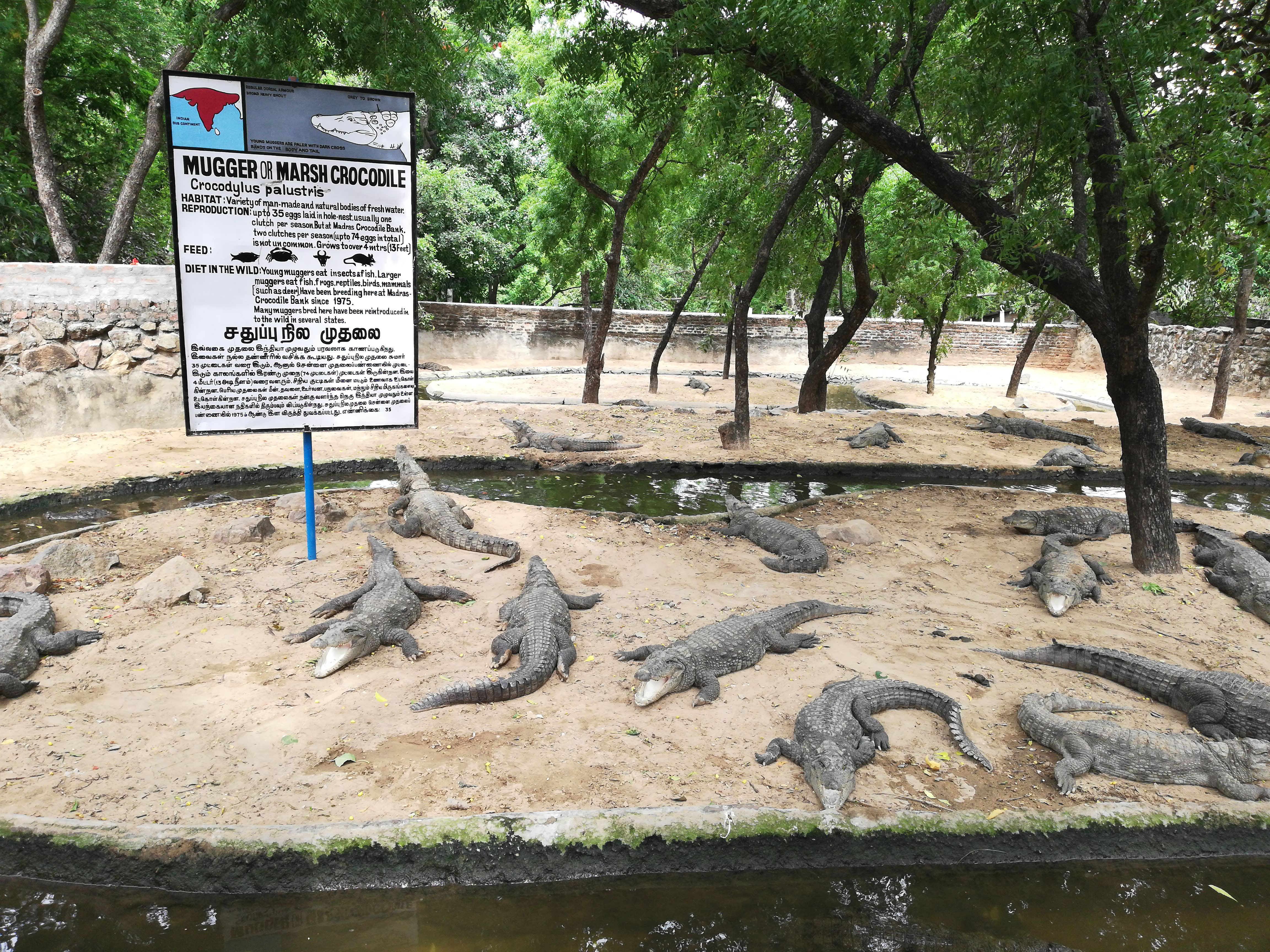 Muggers basking in the sun at CrocBank, Chennai, on 21 July 2018